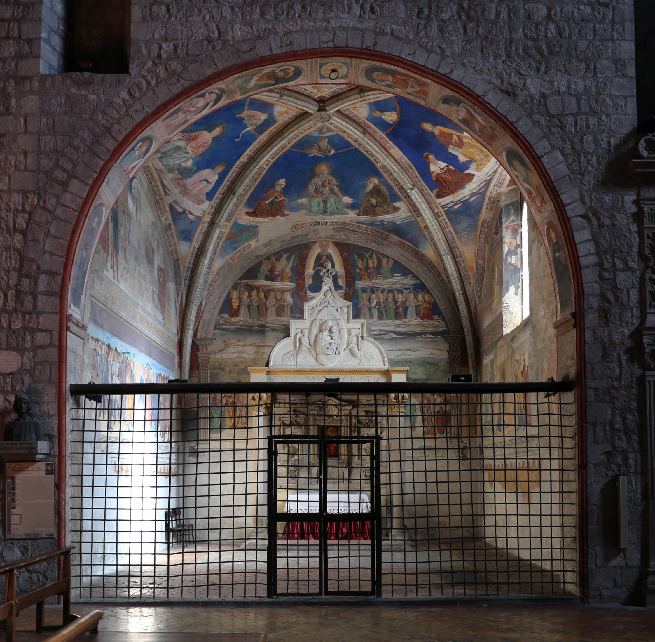 Cappella Mazzatosta